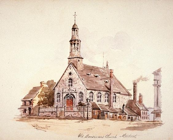 Painting, Old Bonsecours Church, Montreal, Henry Richard S. Bunnett, About 1889, Watercolour on paper, 18 x 25.5 cm